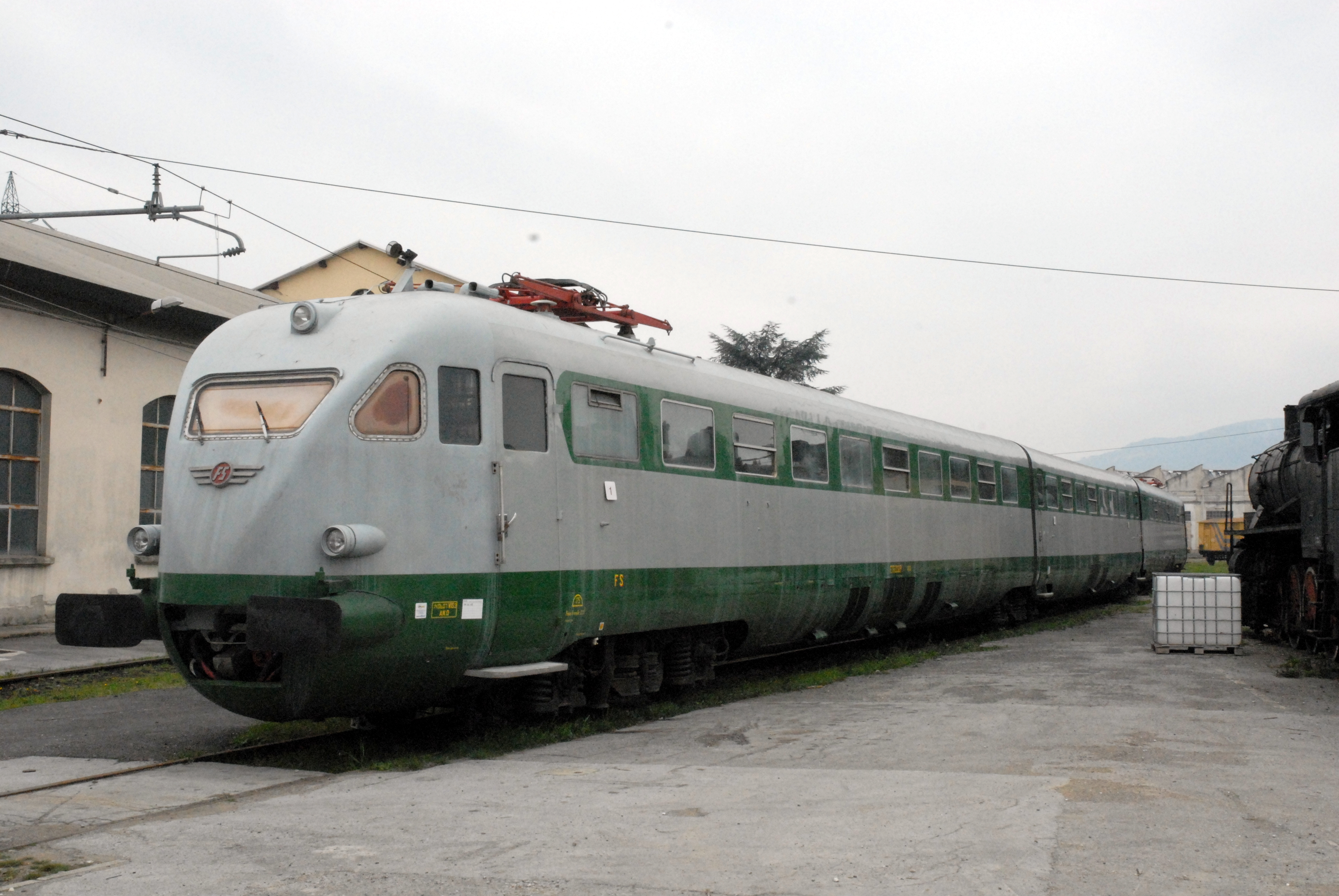 FS railway deposit in Pistoia, Italy. Head of FS ETR 232. This unit, known as 212 before the ugrade of the 1960s, is the original trainset that extabilished the world record for speed, gained on 20 July 1939 near Piacenza. The trainset has been preserved as historical train, and is one of the two surviving ETR200 trainsets.